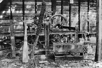 Remains of Wilmington's black-owned printing press of "The Daily Record" after his newspaper building was set on fire by white rioters in 1898